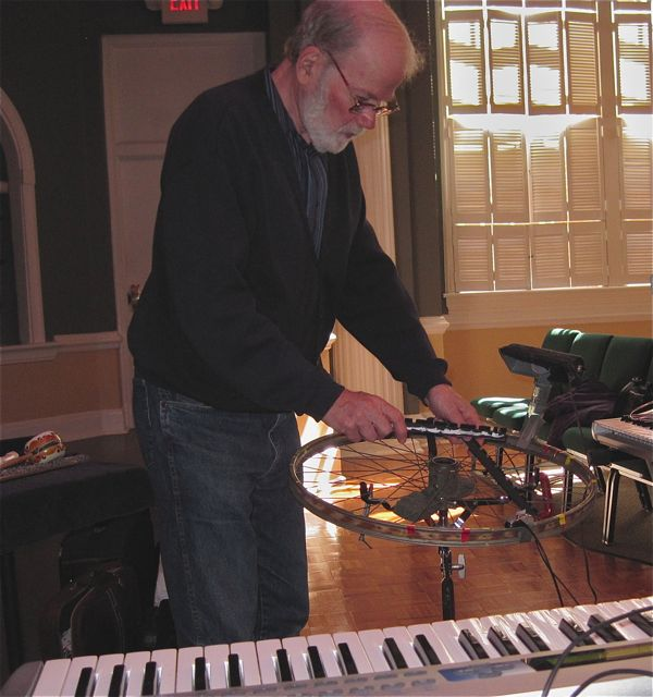 McLean setting up a bicycle wheel for a concert performance, along with the keyboard and other instruments.